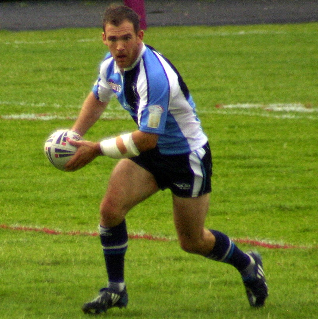 Danny Orr